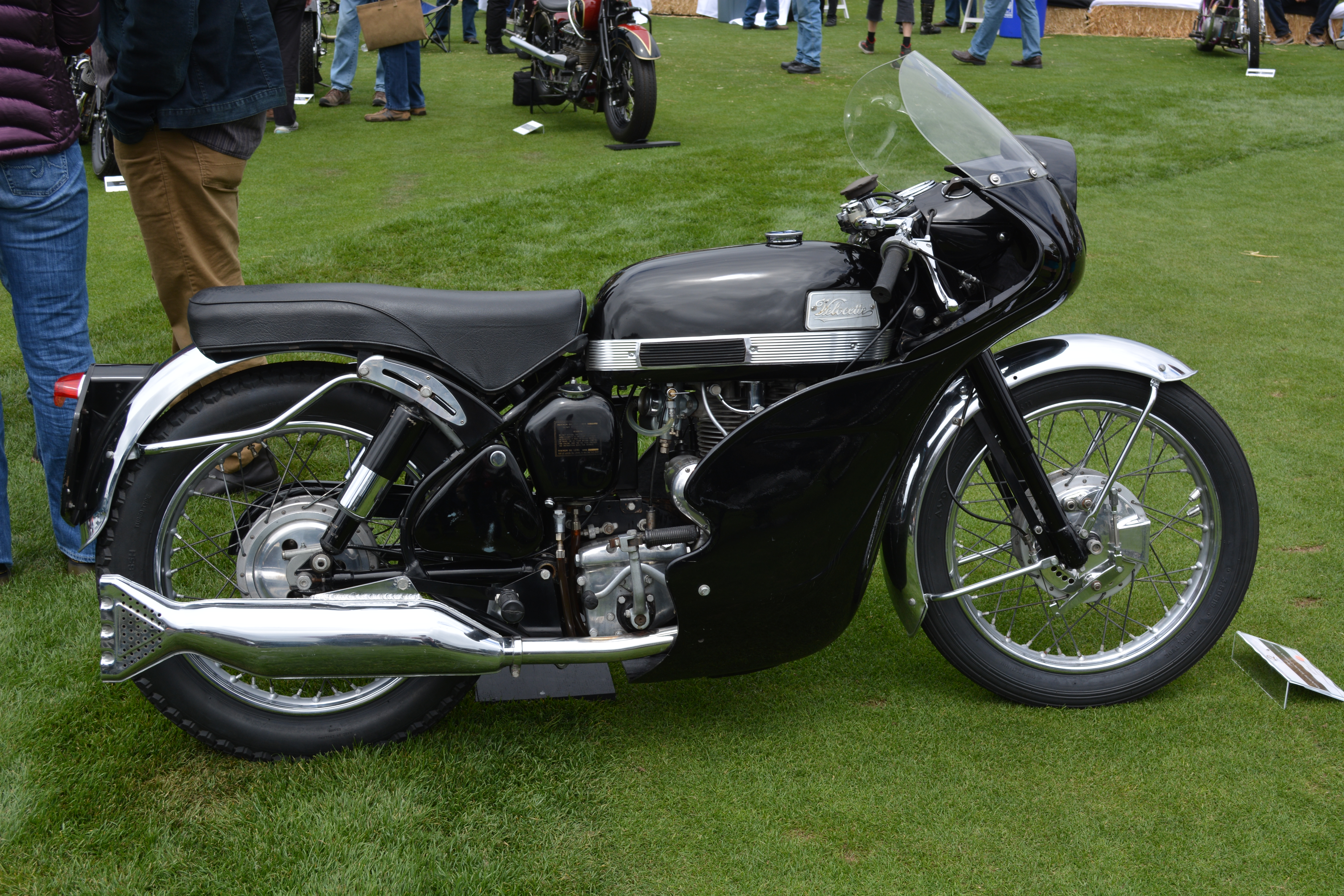 Velocette Venom 500 (or Viper 350, visually similar) Mark 2 (Mk2, MkII) Clubman Veeline with factory-specified Avon fairing (fairing known as 'Veeline Sports' in this configuration with low screen and dropped handlebars/rearset footrests) at the Quail Motorcycle Gathering 2015, Carmel by the Sea, California, US.